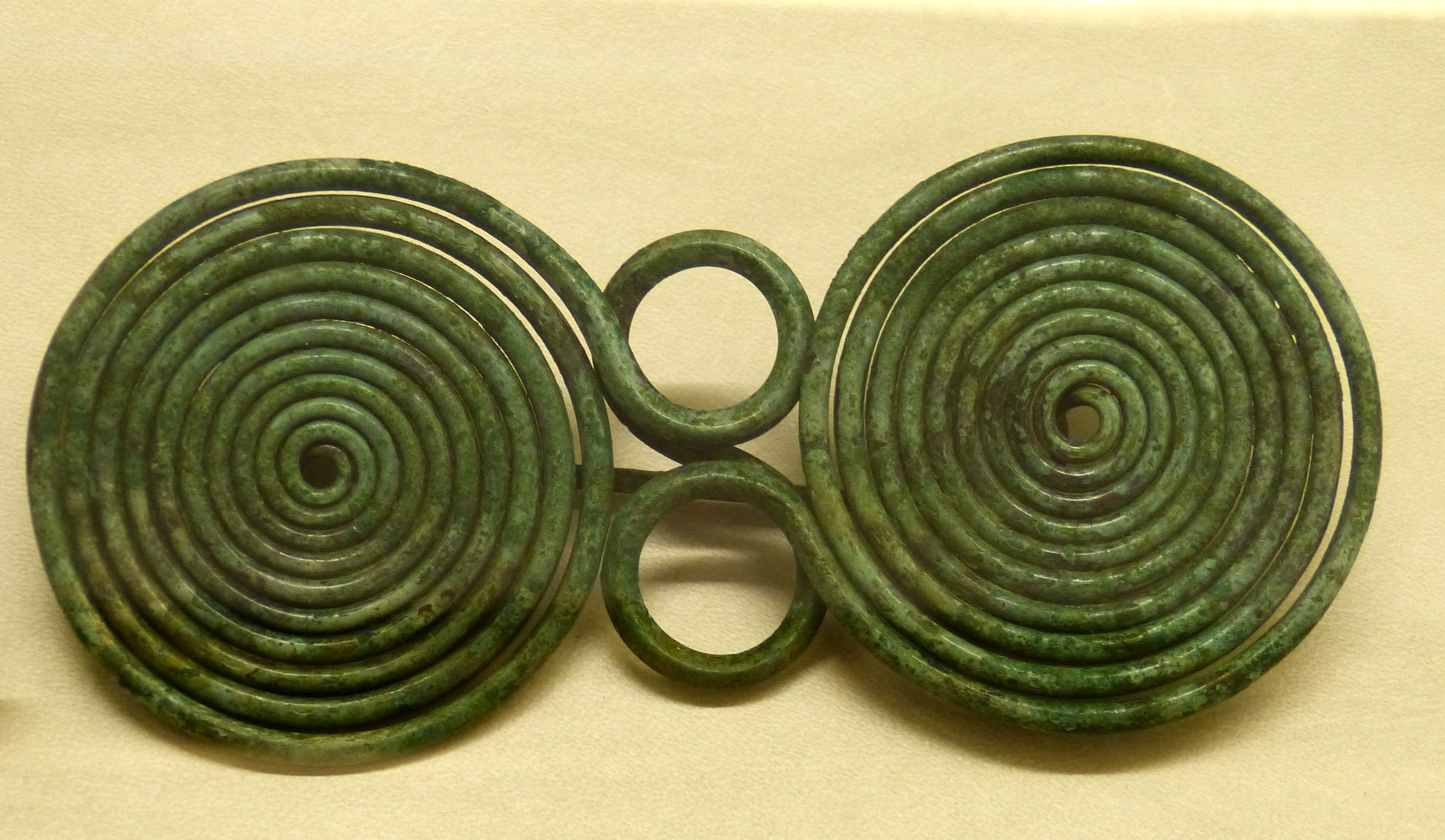 Natural History Museum, Vienna ( Austria ). Iron Age fibula with spiral ornaments from Mount Vital ( Prozor / Croatia )